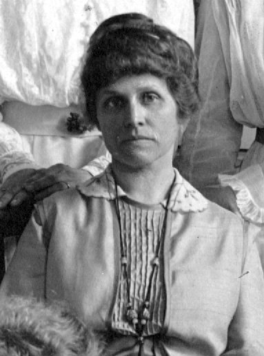 Collection: Human Ecology Historical Photographs Title: Helen Binkerd Young in the Faculty of the department of home economics about 1918-19. Collection #23-2-749, item AP-P-05 Div. Rare & Manuscript Collections, Cornell University Library Persistent URI: There are no known U.S. copyright restrictions on this image. The digital file is owned by the Cornell University Library which is making it freely available with the request that, when possible, the Library be credited as its source.